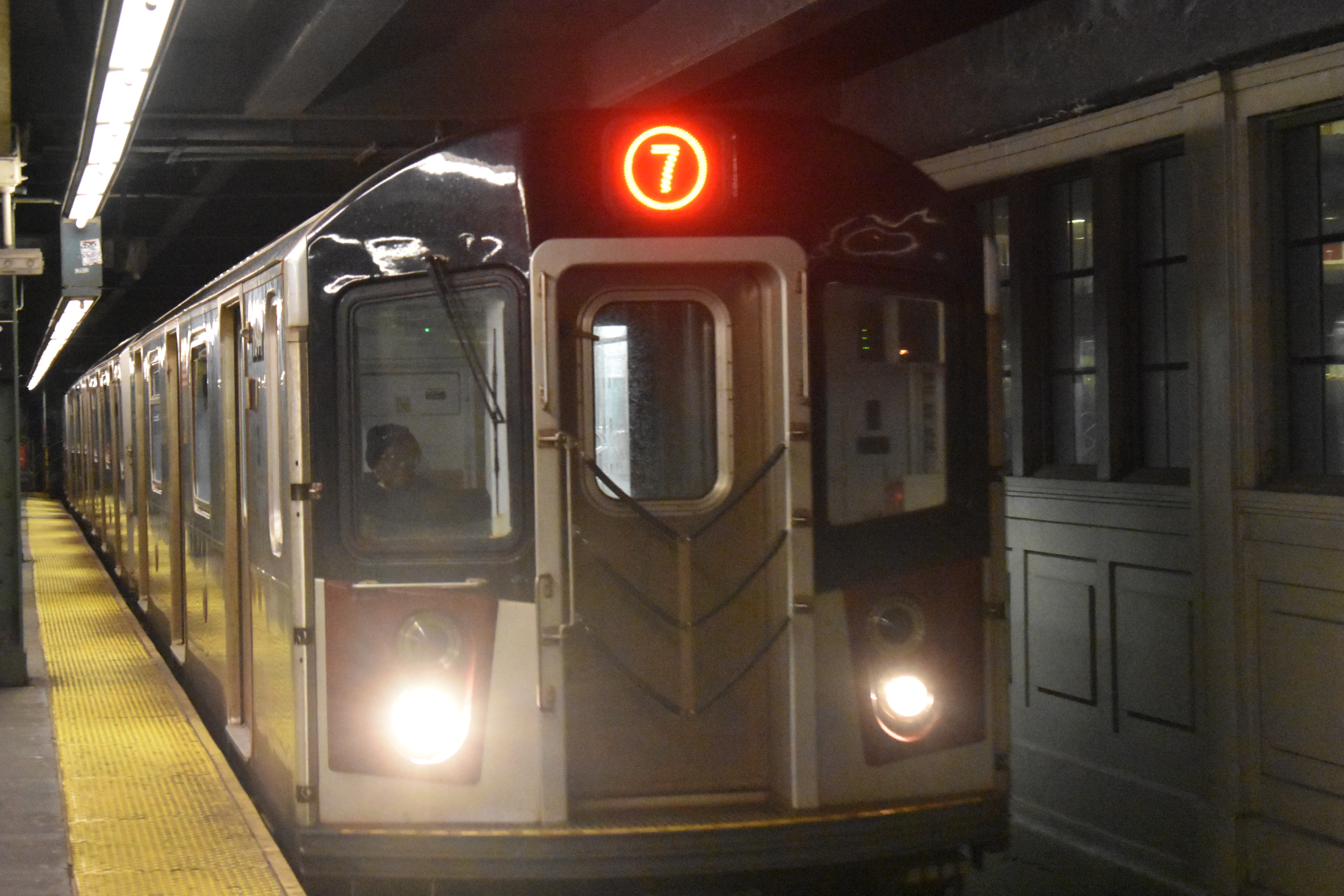 A brand new set of R188's operating on the (7) line enters Queensboro Plaza, in Long Island City, Queens.